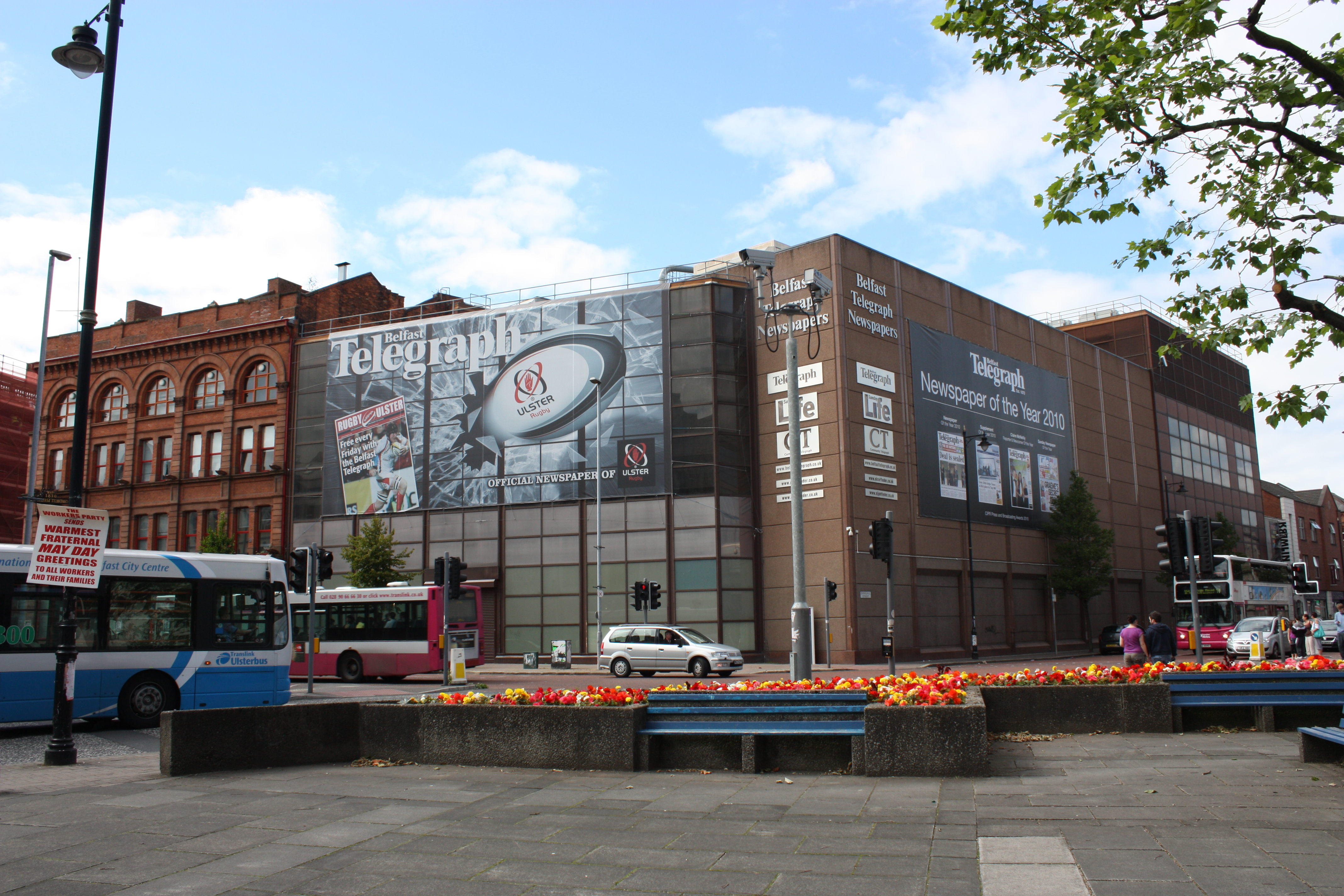 Belfast Telegraph offices, Royal Avenue (with corner of Donegall Street), Belfast, Northern Ireland, July 2010